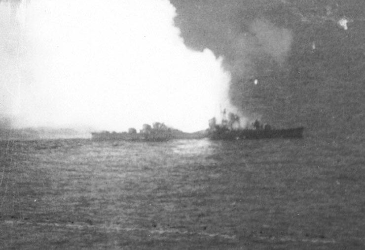 Imperial Japanese Navy Destroyer Akizuki (秋月型) blows up and is burnt. This incident was Battle off Cape Engaño (エンガノ岬沖海戦) in Battle of Leyte Gulf (レイテ沖海戦).